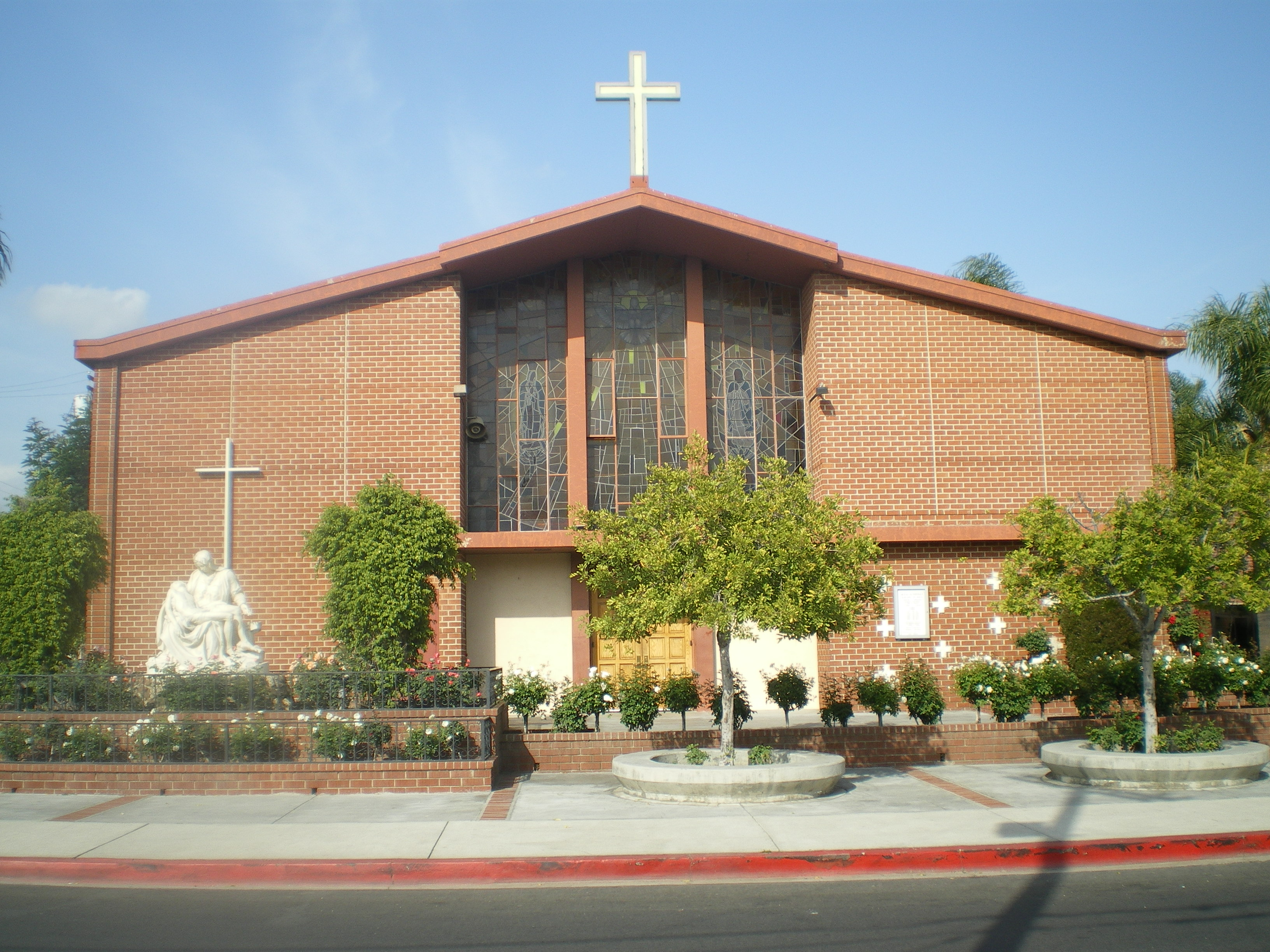 Mary Immaculate Catholic Church — at 10390 Remick Avenue in the Pacoima community of Los Angeles, northeastern San Fernando Valley, California.